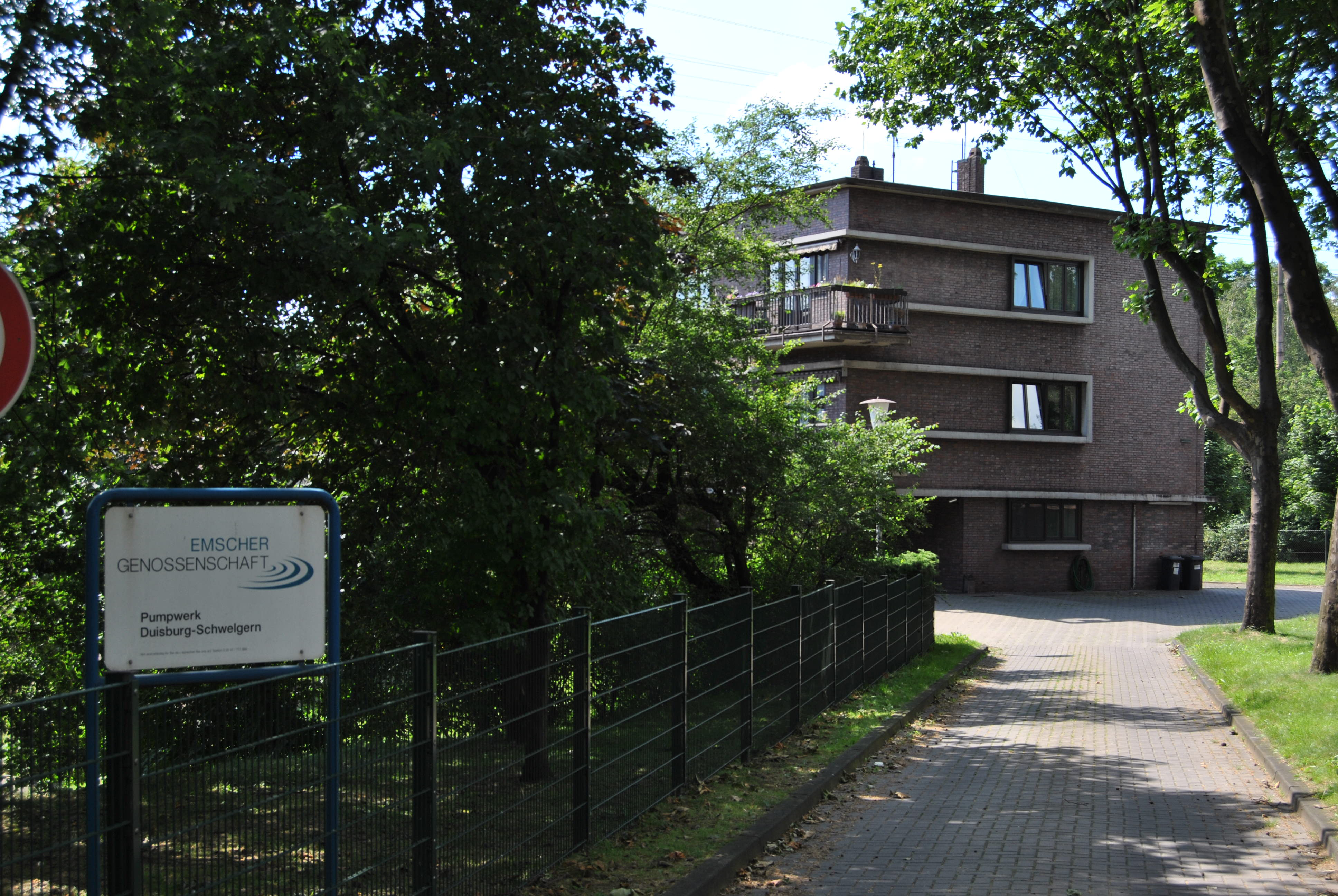 Duisburg (North Rhine-Westphalia, Germany) – borough Hamborn, district Marxloh – Schwelgern Pumping Station This image shows a heritage building in Germany, located in the North Rhine-Westphalian city Duisburg (no. 499). This photograph was taken with a Nikon D3000.